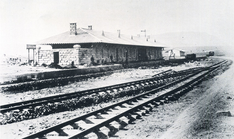 Volksrust Station shortly after its completion, 1895